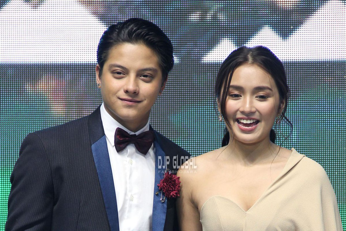 KathNiel at Celebrate Mega in Iceland 2016